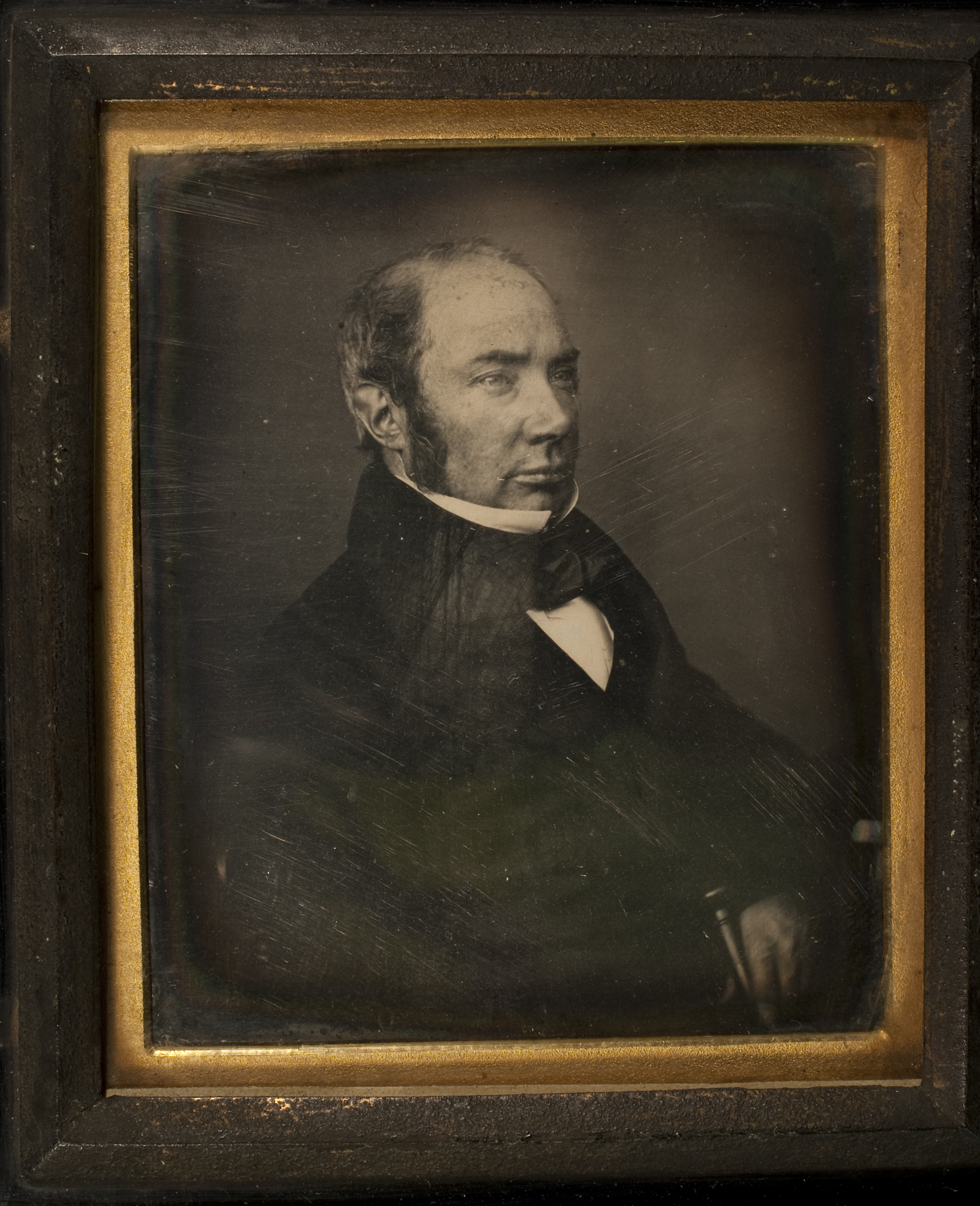 Portrait of William Ick (from the collections of Birmingham Museum, accession number 1964F109)